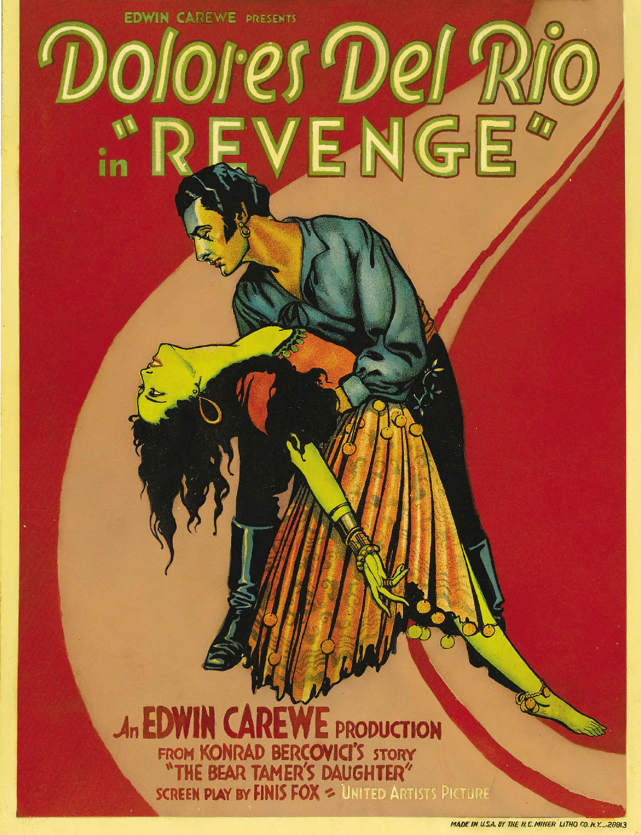 American window poster for the 1928 film Revenge, starring Dolores del Río.